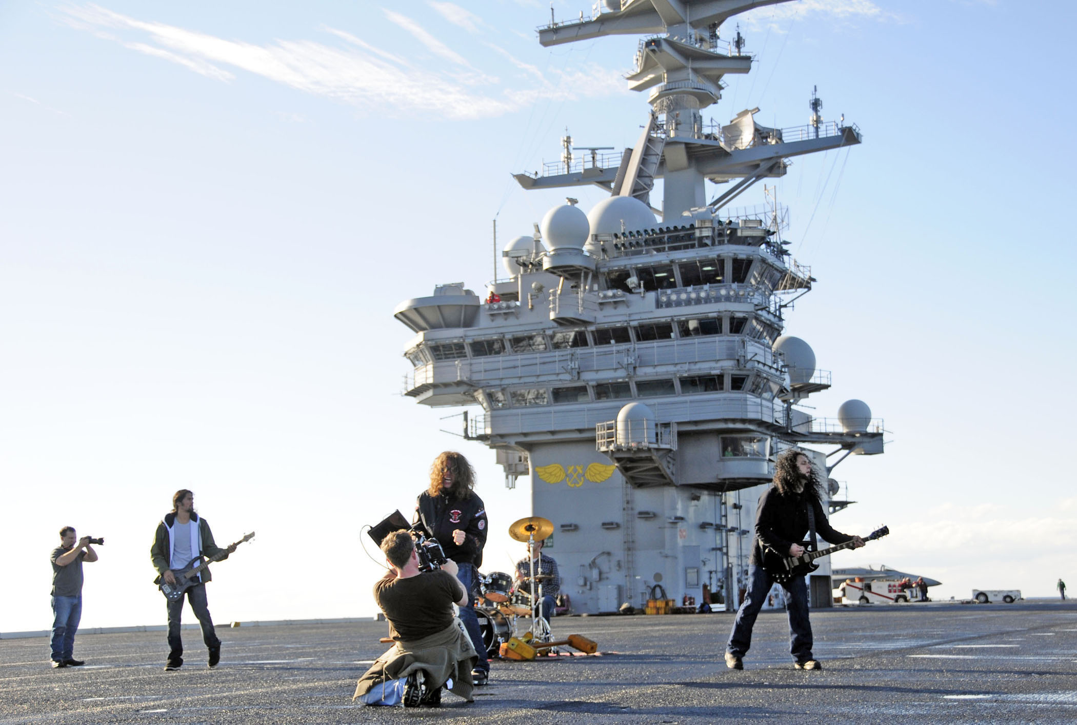 ATLANTIC OCEAN (Dec. 1, 2010) Members of the North Carolina-based band Airiel Down film a music video on the flight deck of the aircraft carrier USS George H.W. Bush (CVN 77). George H.W. Bush is conducting training in the Atlantic Ocean. (U.S. Navy photo by Mass Communication Specialist Seaman Leonard Adams/Released)